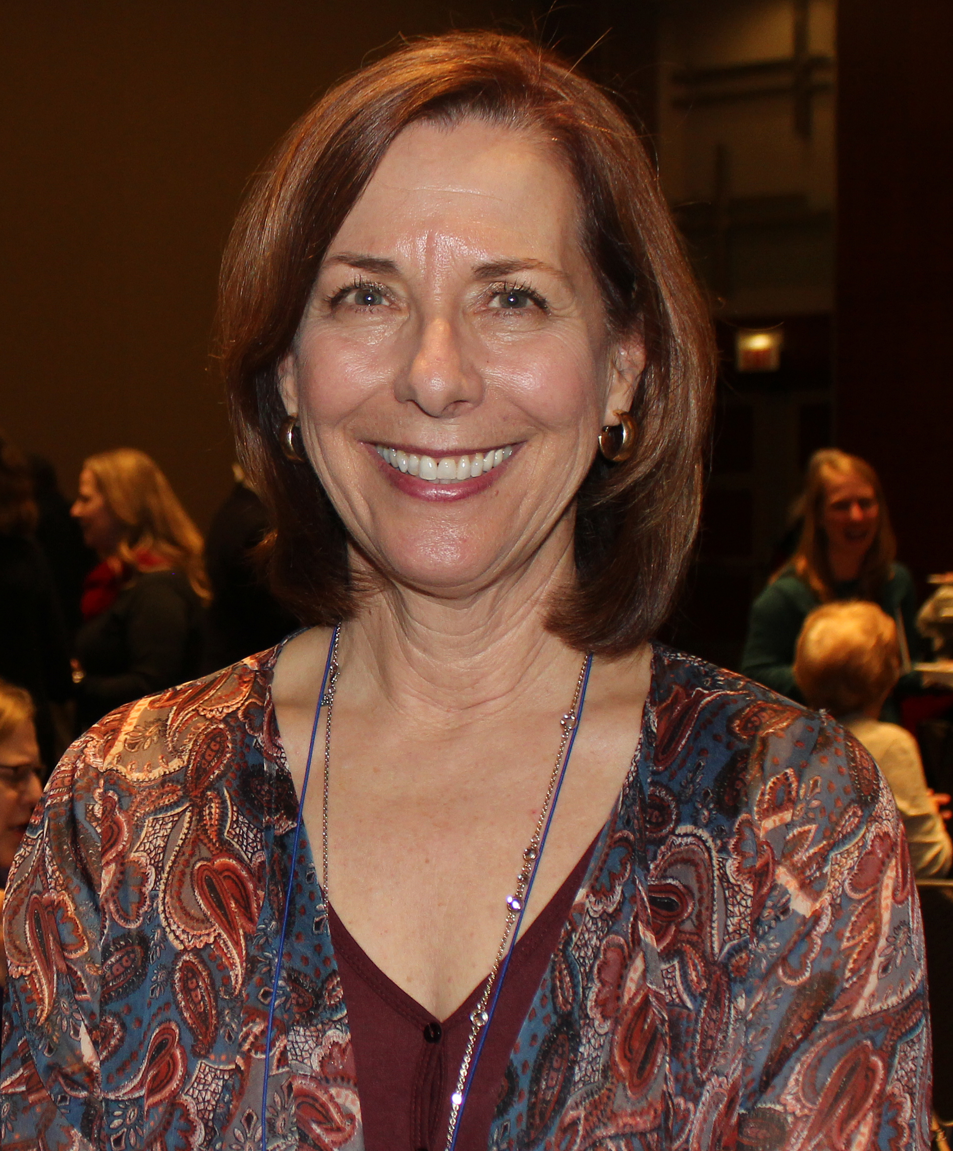 Pam Muñoz Ryan, an American writer.